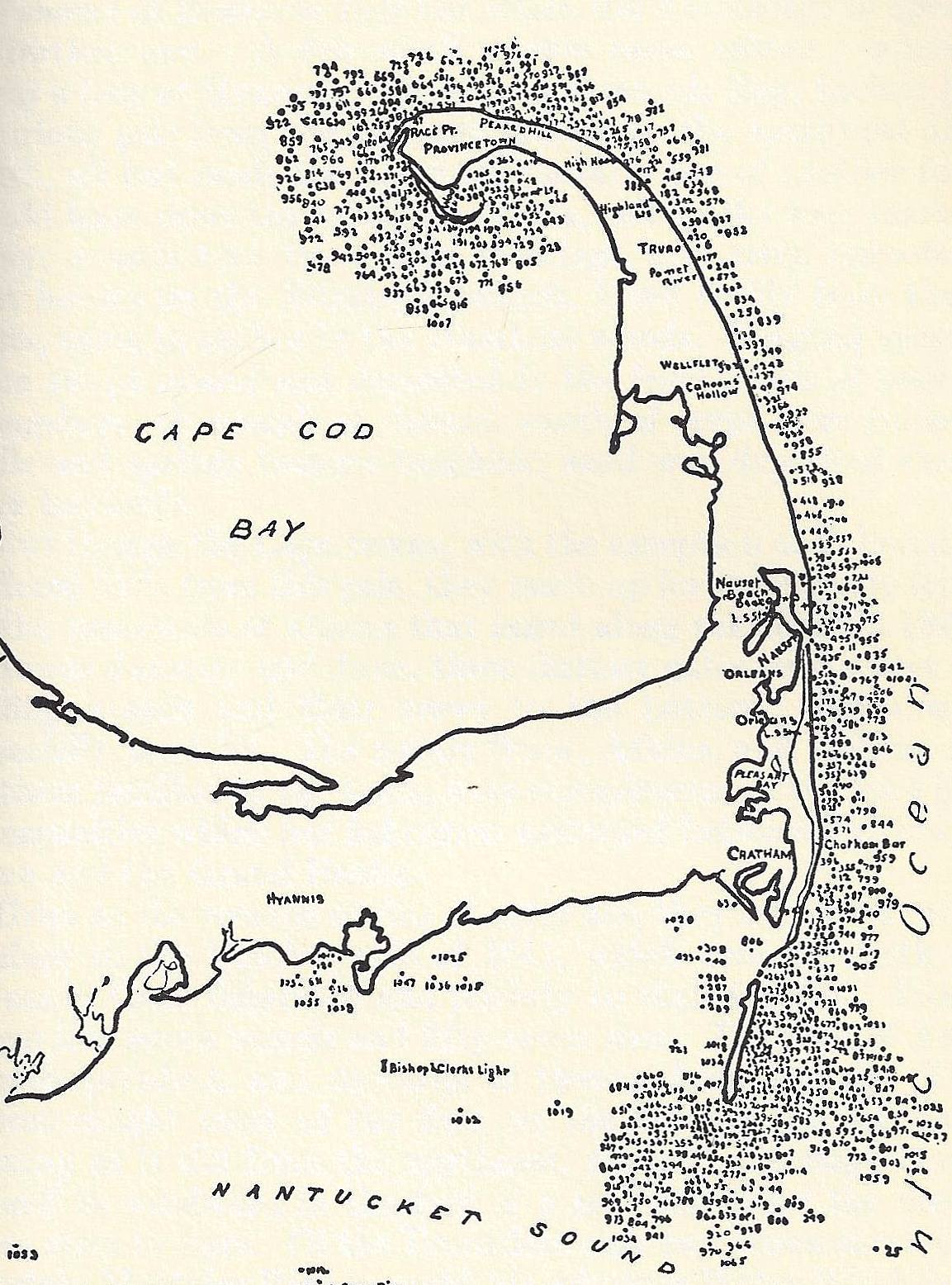 A map of Cape Cod annotated with the approximate locations of shipwrecks that were known as of 1903. This area, known as "The Graveyard of the Atlantic Ocean," is reported to have had over 3,000 wrecks. This is a section of a map drawn by the U.S. Engineer Office, Newport, RI.